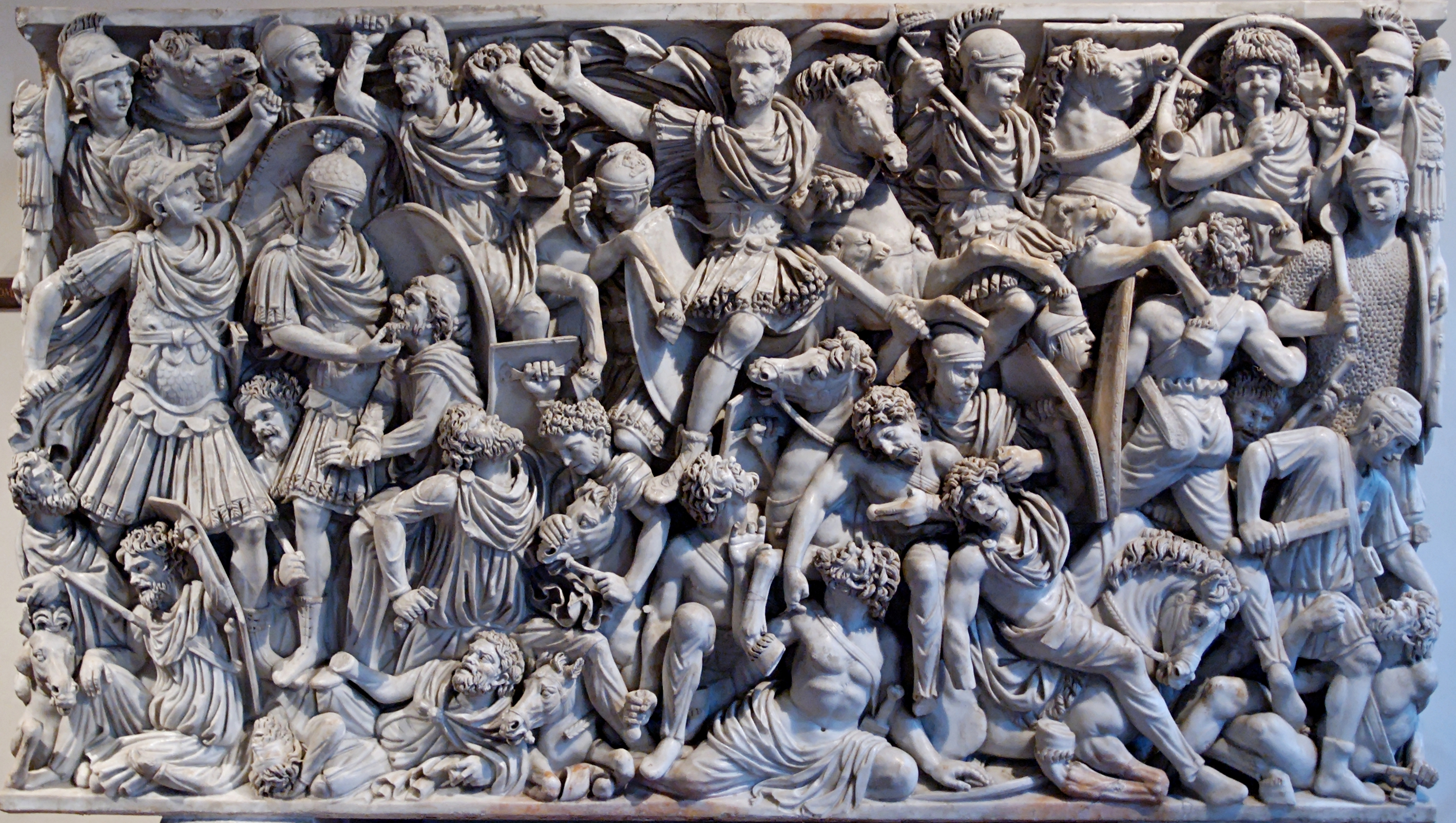 So-called “Grande Ludovisi” sarcophagus, with battle scene between Roman soldiers and Germans. The main character is probably Hostilian, Emperor Decius' son (d. 251 CE). Proconnesus marble, Roman artwork, ca. 251/252 CE.